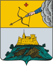 Sarapul (Udmurtia), coat of arms (1781)